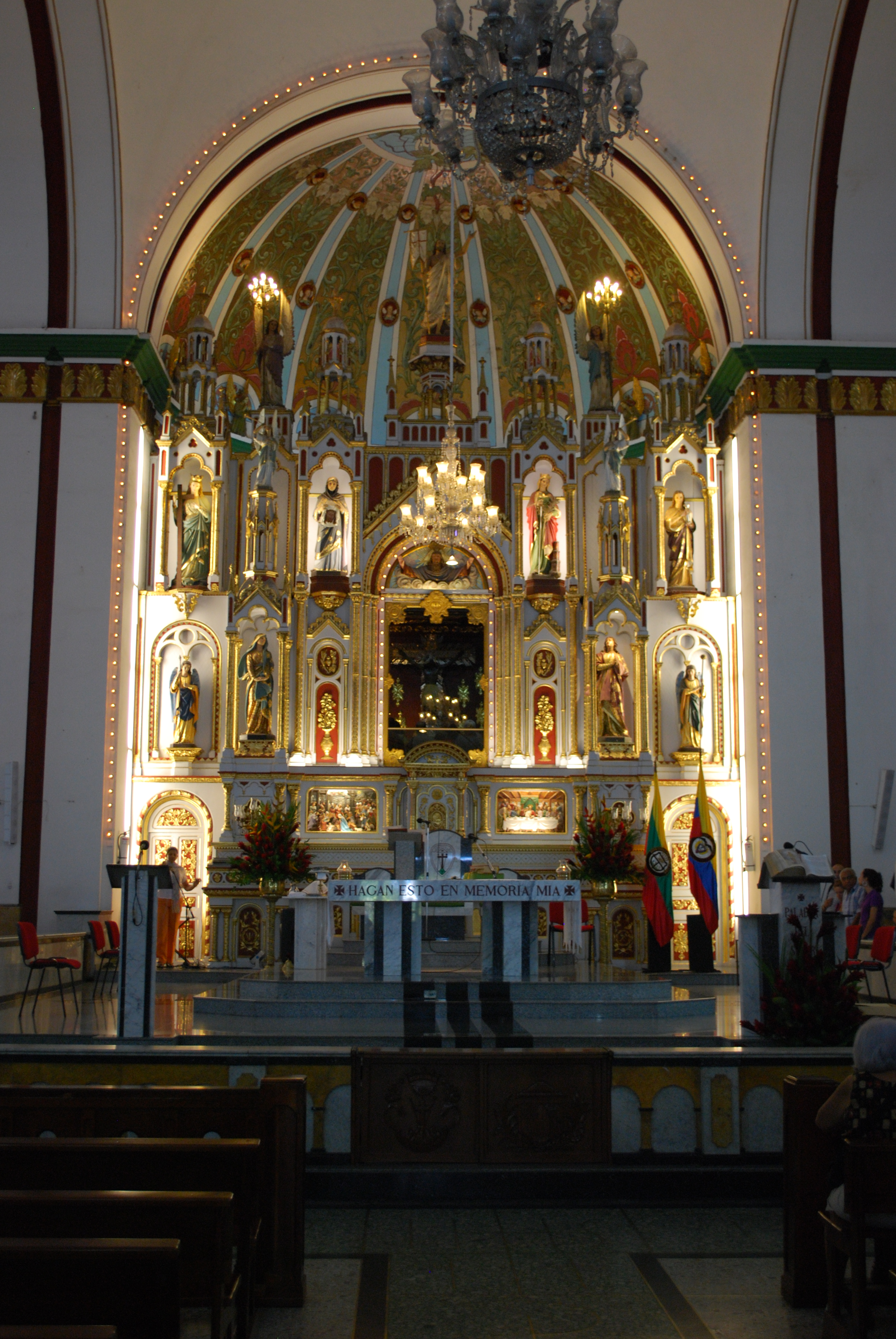 Image of our Lord of Miracles of Buga at the center of the Main altar of his Basilica..